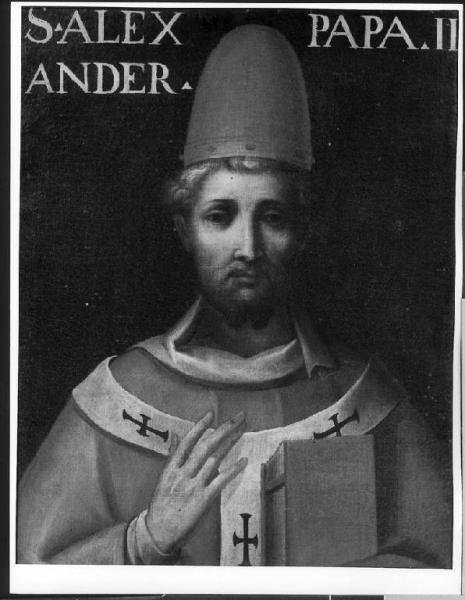 Painting of Alexander II, pope